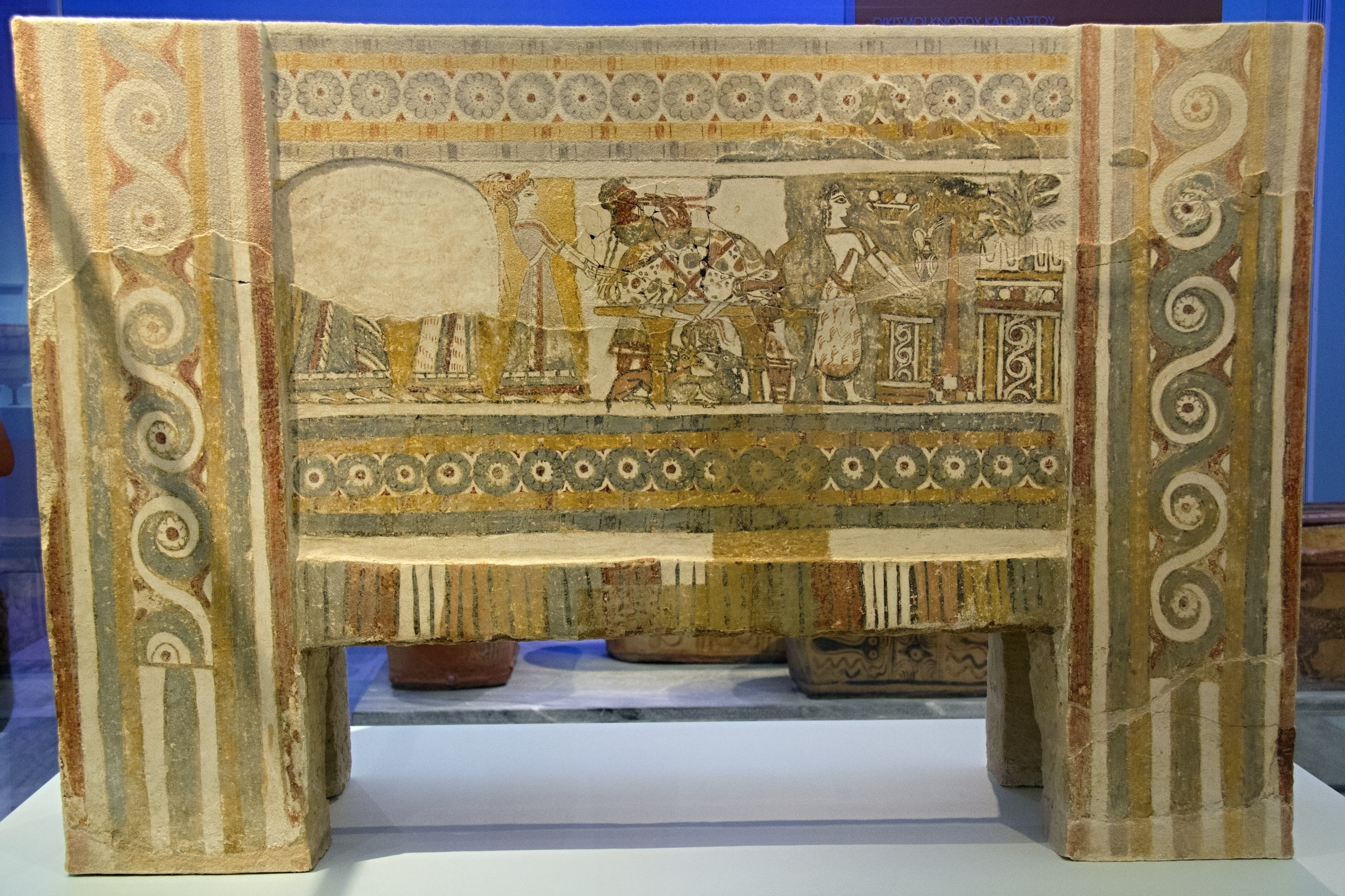 The sarcophagus of Agia Triada, long side 1. Limestone, length 137 cm. Apparently for burial of a prince. Frescoes on the gypsum plaster surface represent Minoan burial ritual. Is evident Egyptian influence and connection with the Mycenaean culture. 1370-1320 BC. Archaeological Museum of Heraklion.